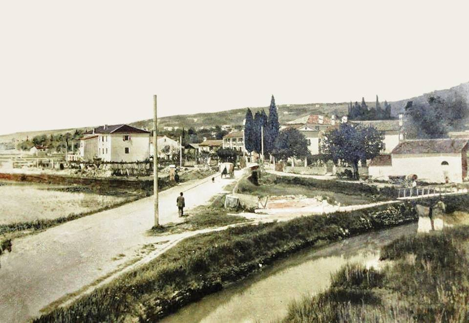 St. Lucy, Piran 1890